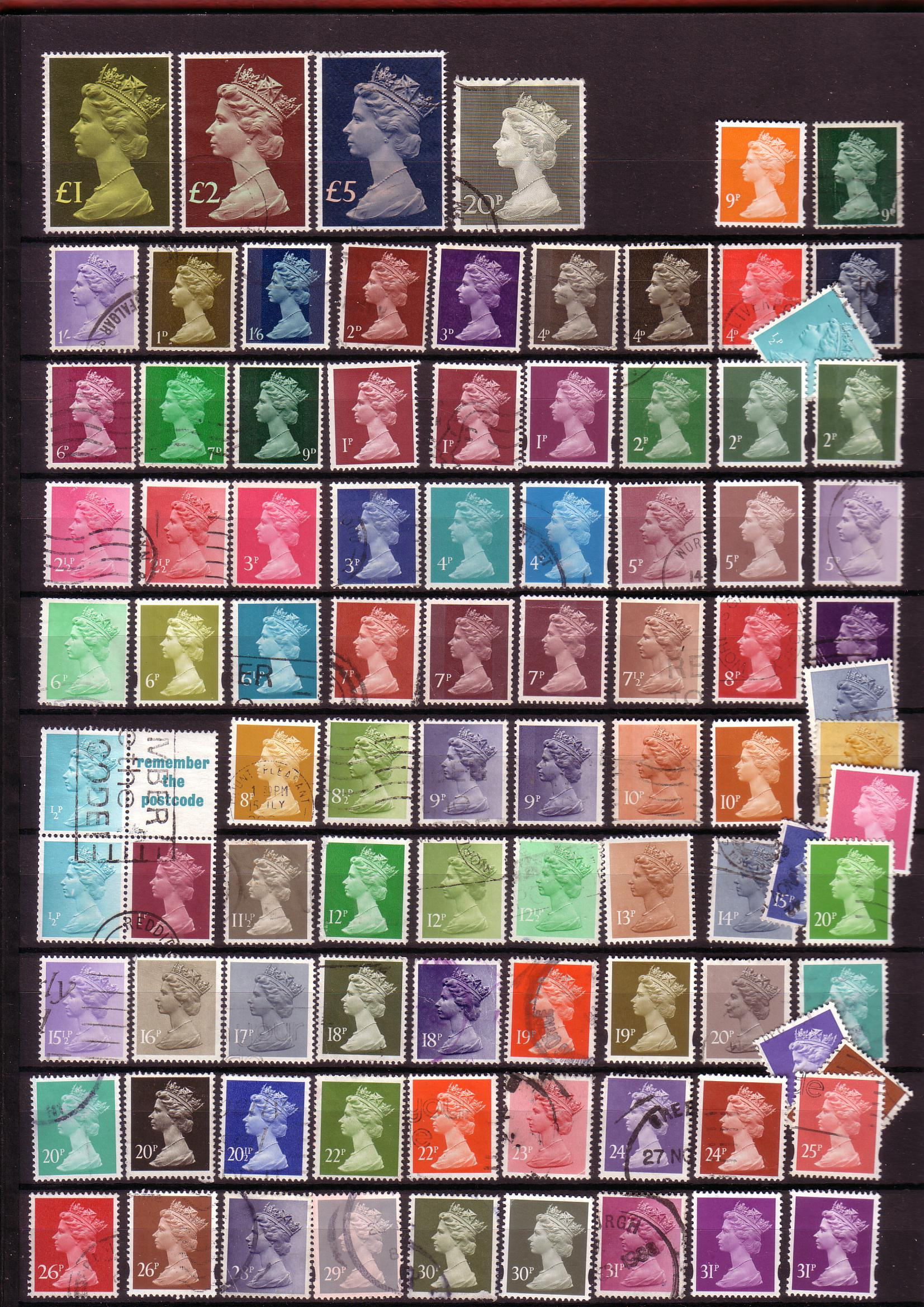 Selection of Great Britain Machin stamps first printed in 1969 with various denominations but same design since date of issue